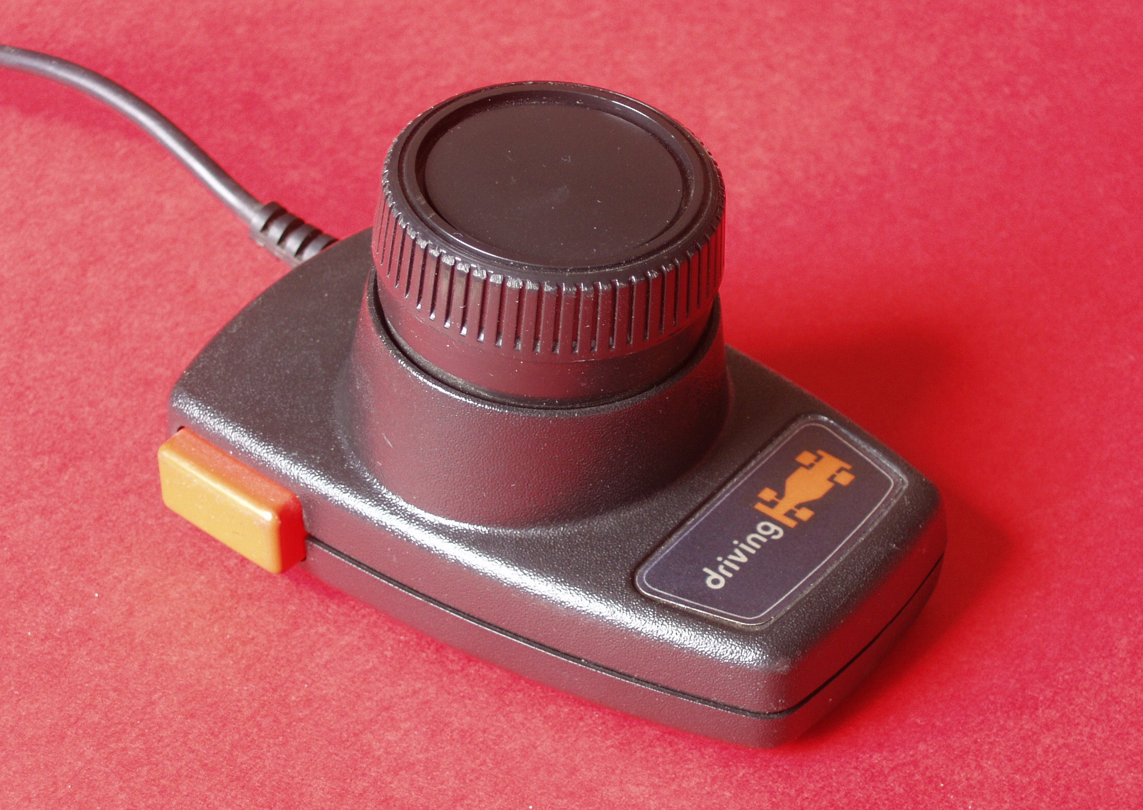 A photograph of the Atari driving controller.